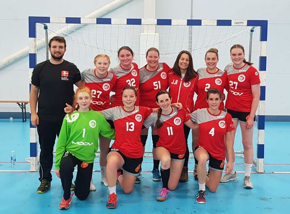 Women Regional Handball League London GD Handball Club